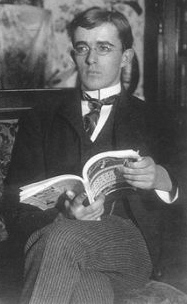 URL: Date: c. 1900